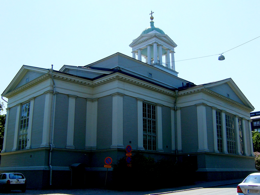 The Old Church (Carl Ludvig Engel, 1826), Helsinki, Finland